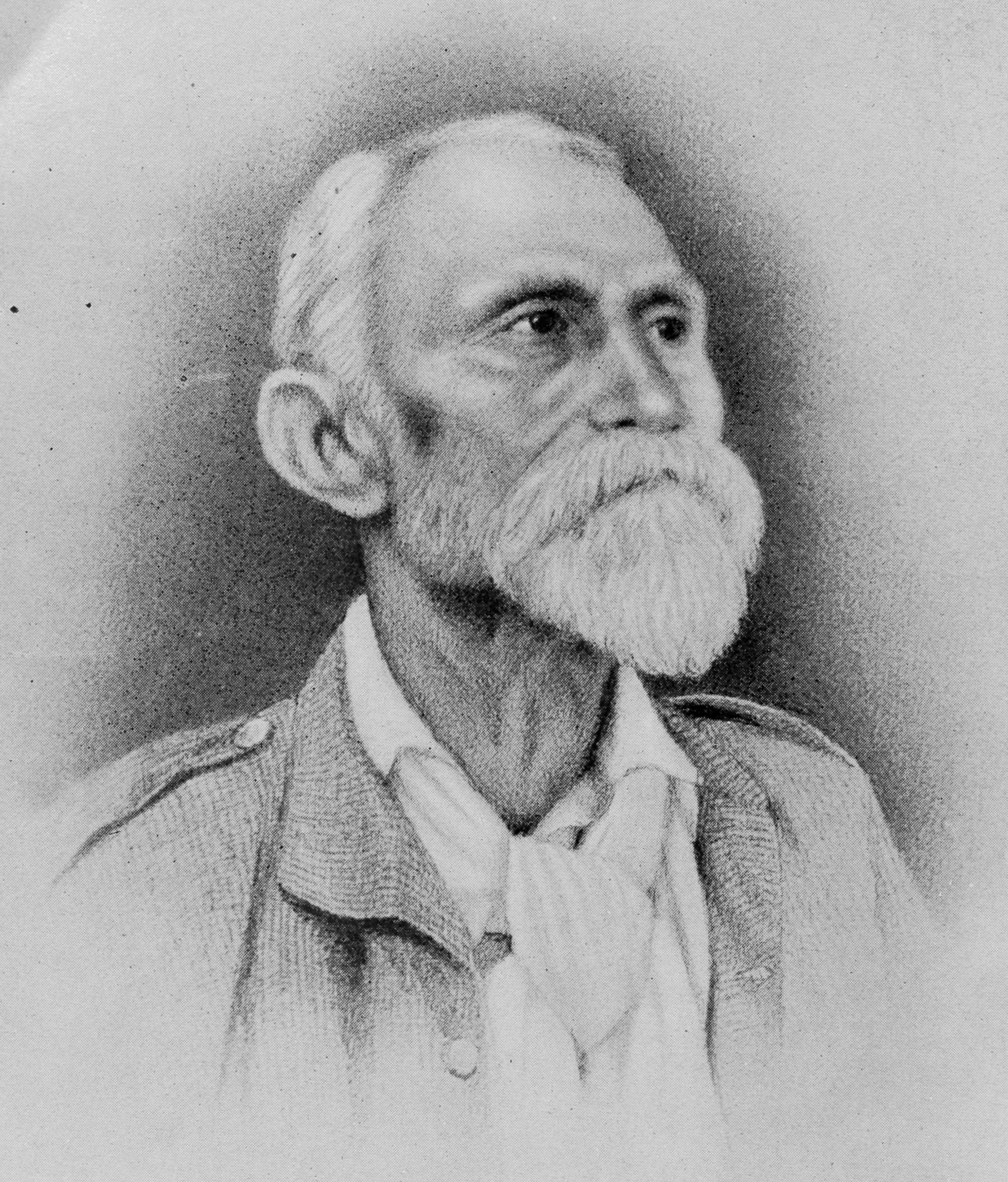 Máximo Gómez